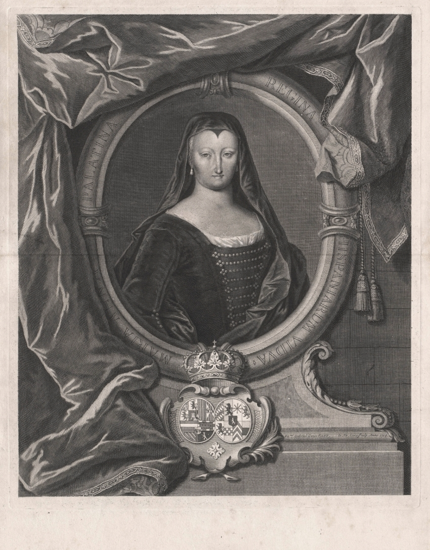 The Dowager Queen of Spain (1667-1740)